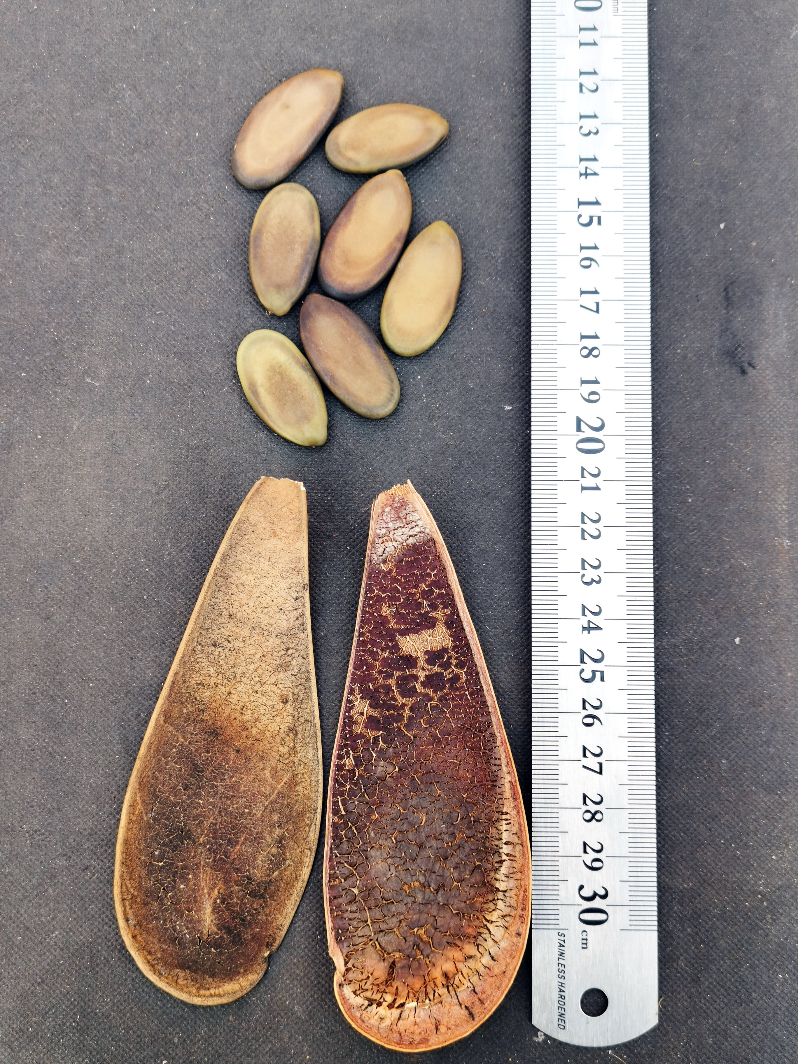 Dehisced fruit and seeds of Schizolobium parahyba (Vell.) S.F.Blake cultivated in Johannesburg, South Africa